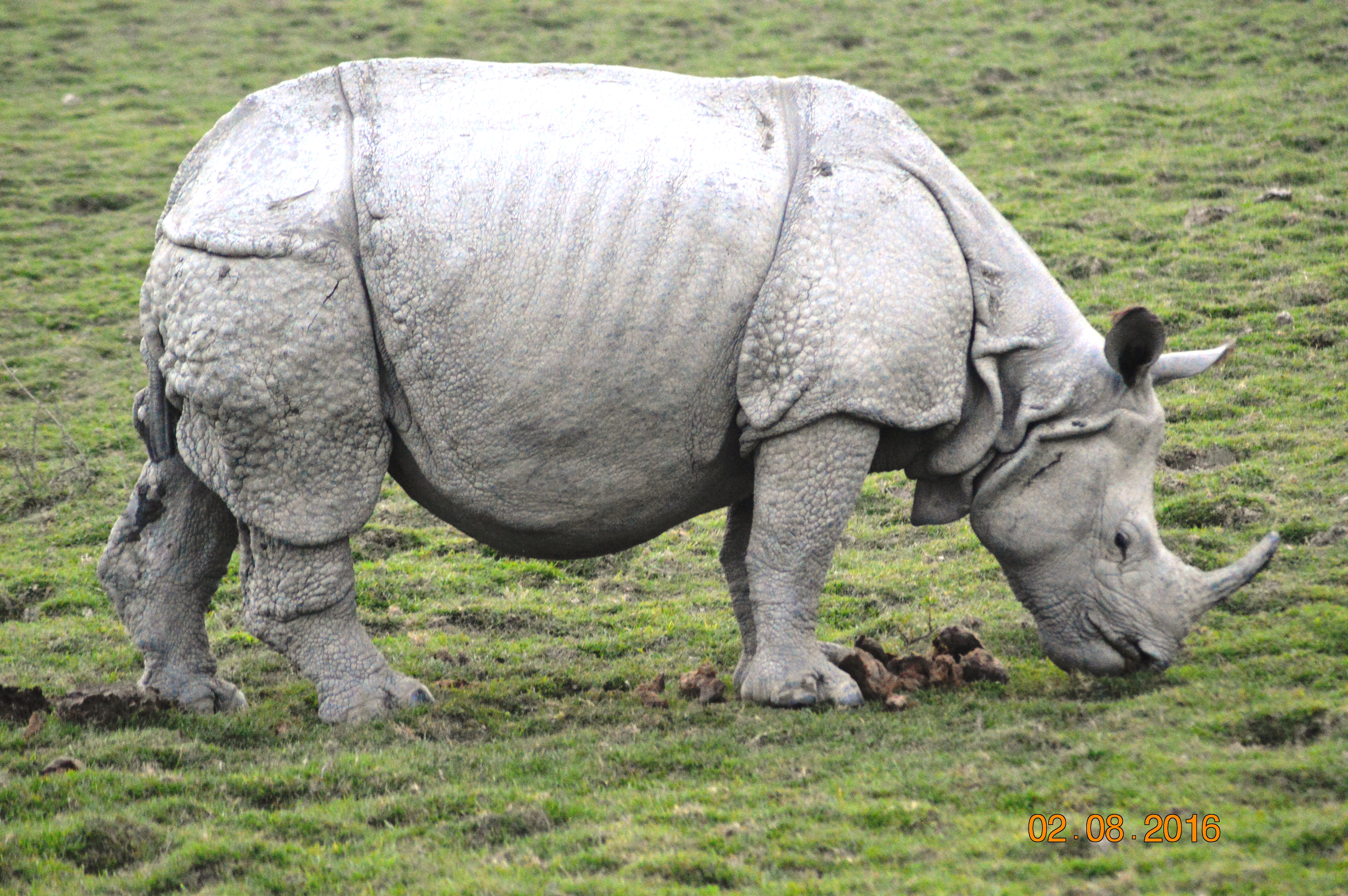 mighty one horn Rhino